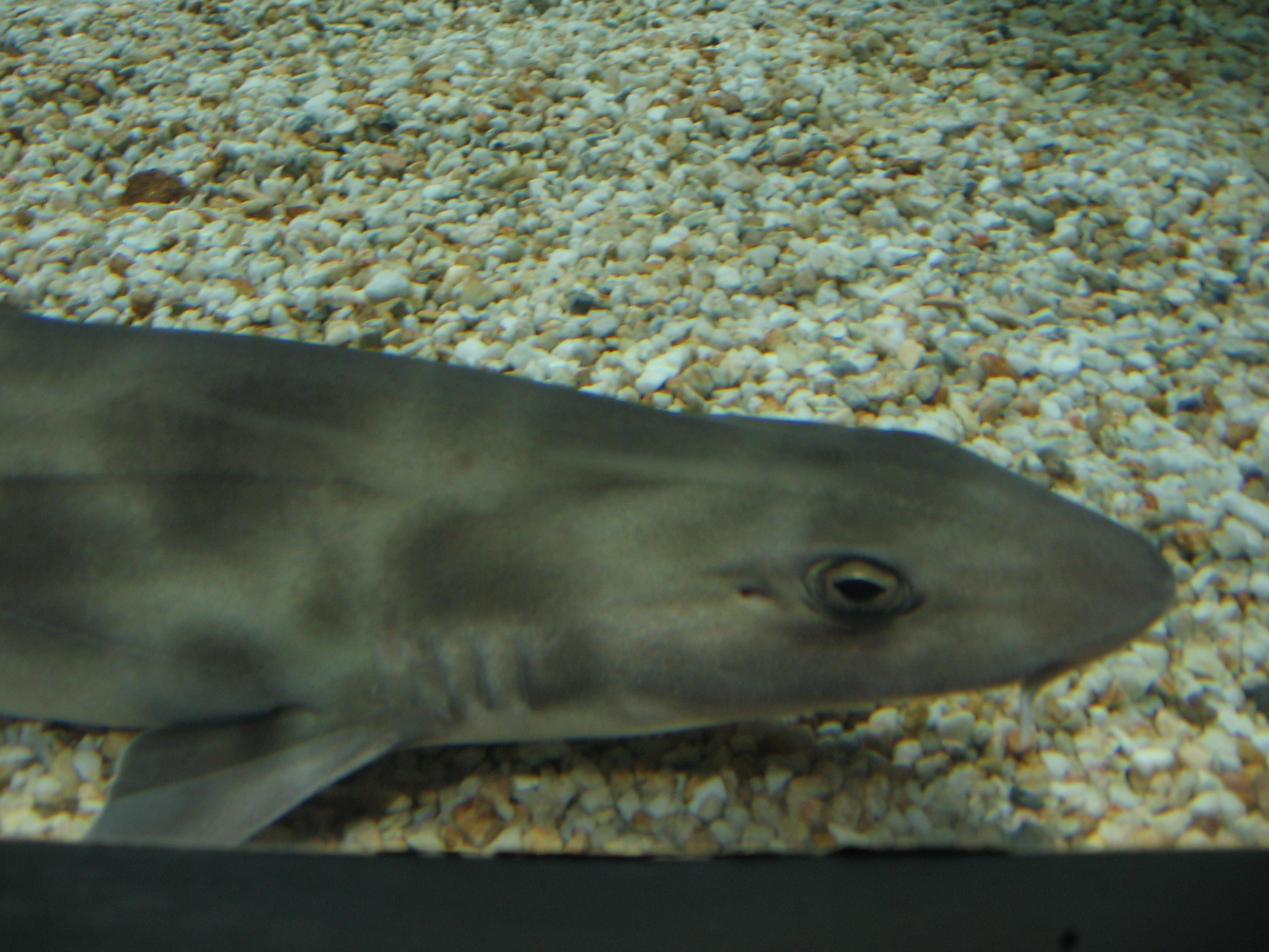 Whiskery shark (Furgaleus macki) at the Melbourne Aquarium.